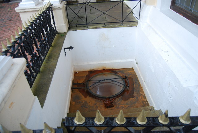 The Chalybeate Spring. Discovered in 1606. This is an iron rich spring, which led to the development of Tunbridge Wells as a Spa town. It is possible still to "take the waters" here, it tastes like drinking rusty nails!